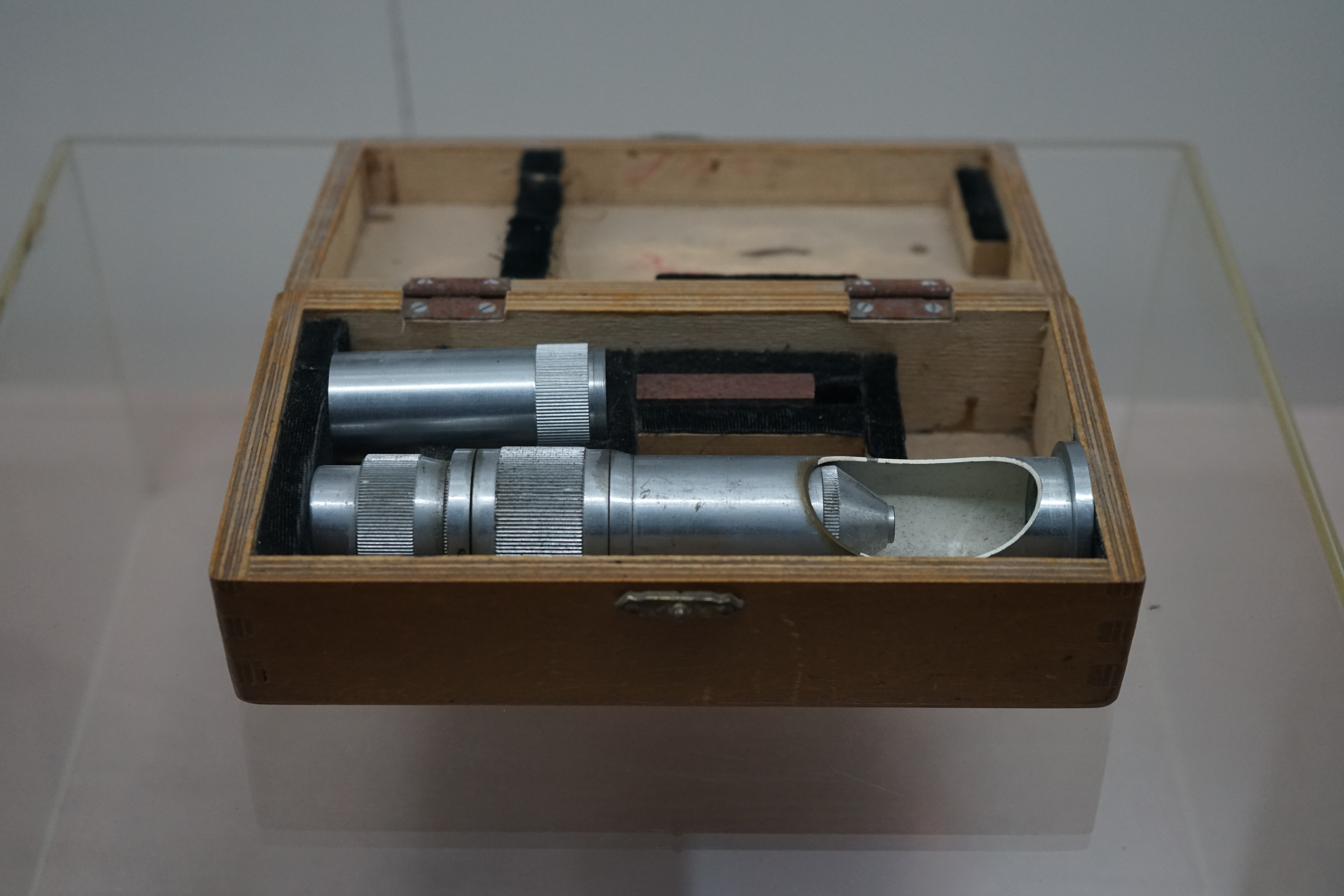 magnifiers used by Wang Xuan to examine the fonts